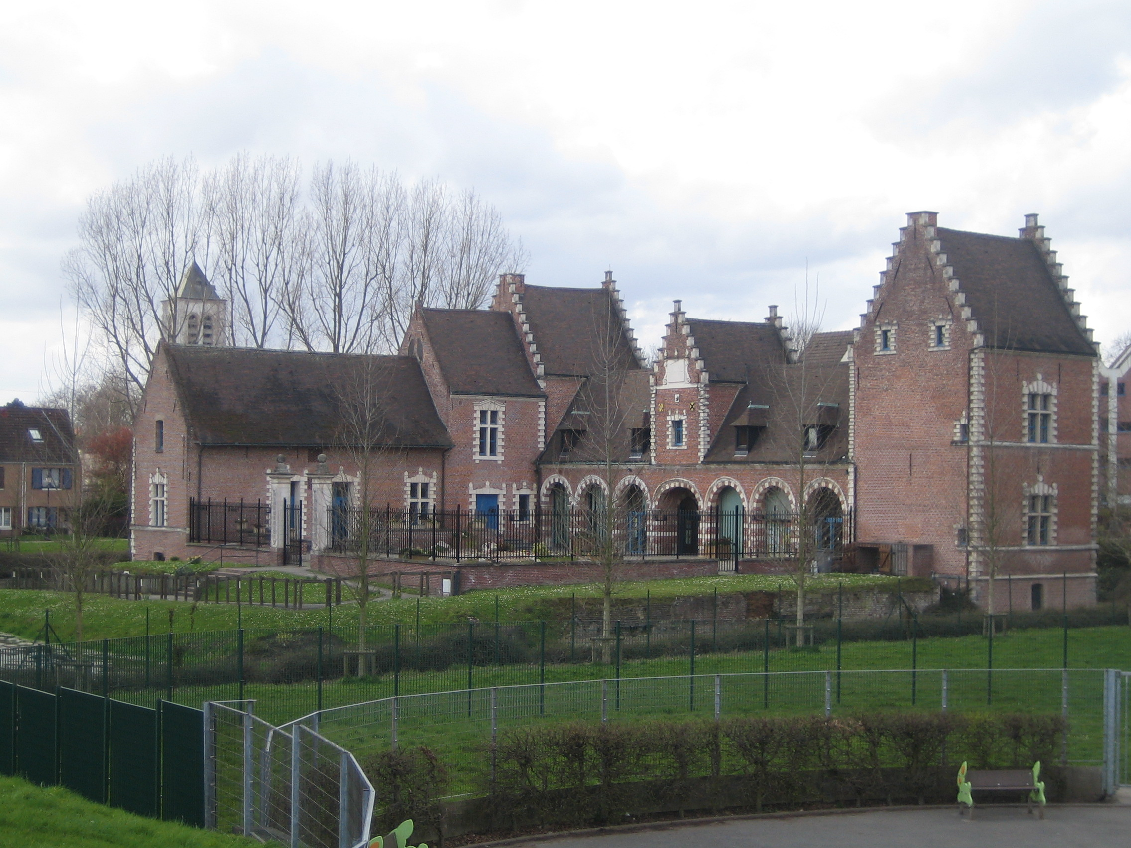 Flers castle with Saint-Pierre church in background, in Villeneuve d'Ascq.